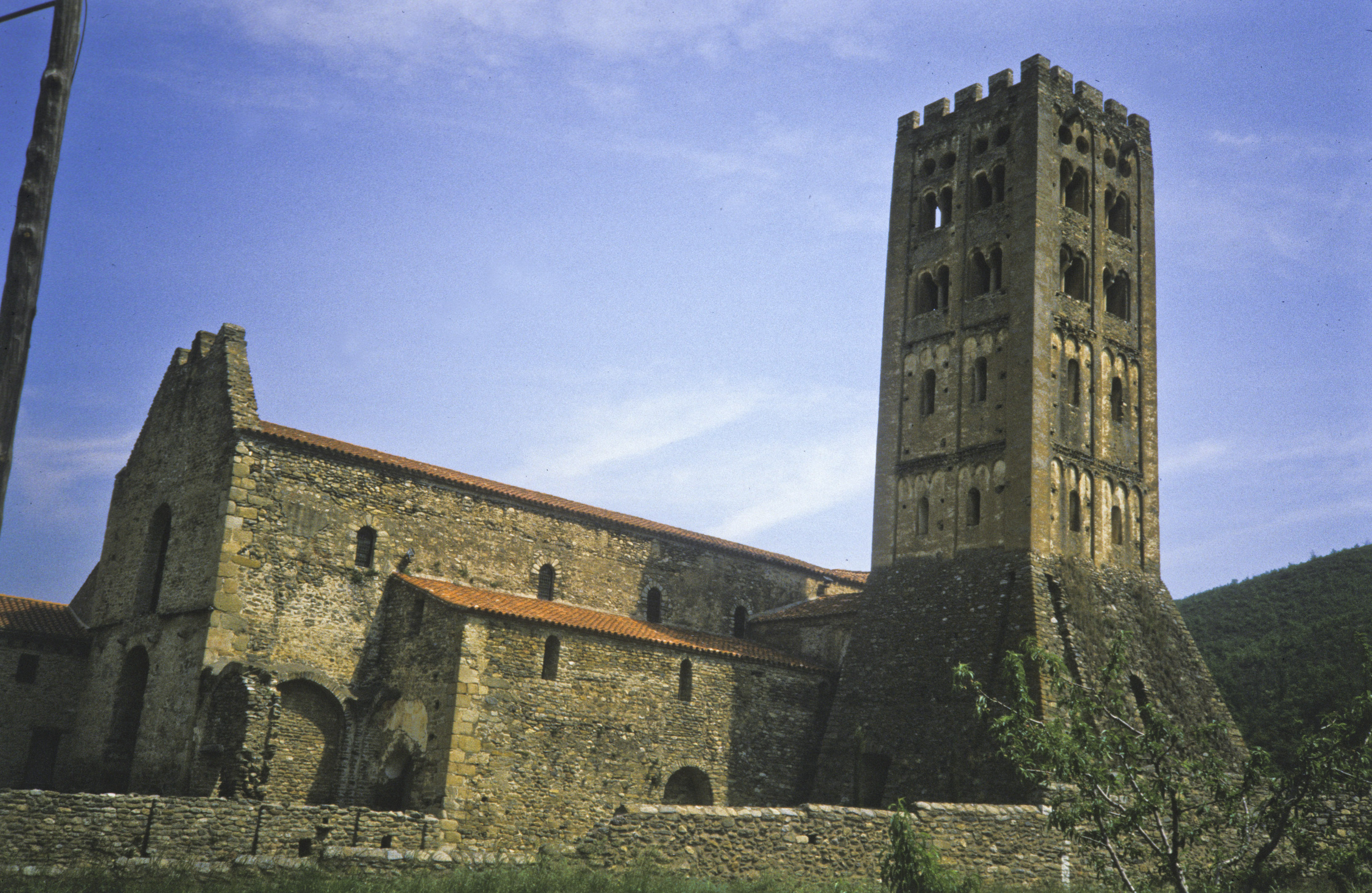 Southern France